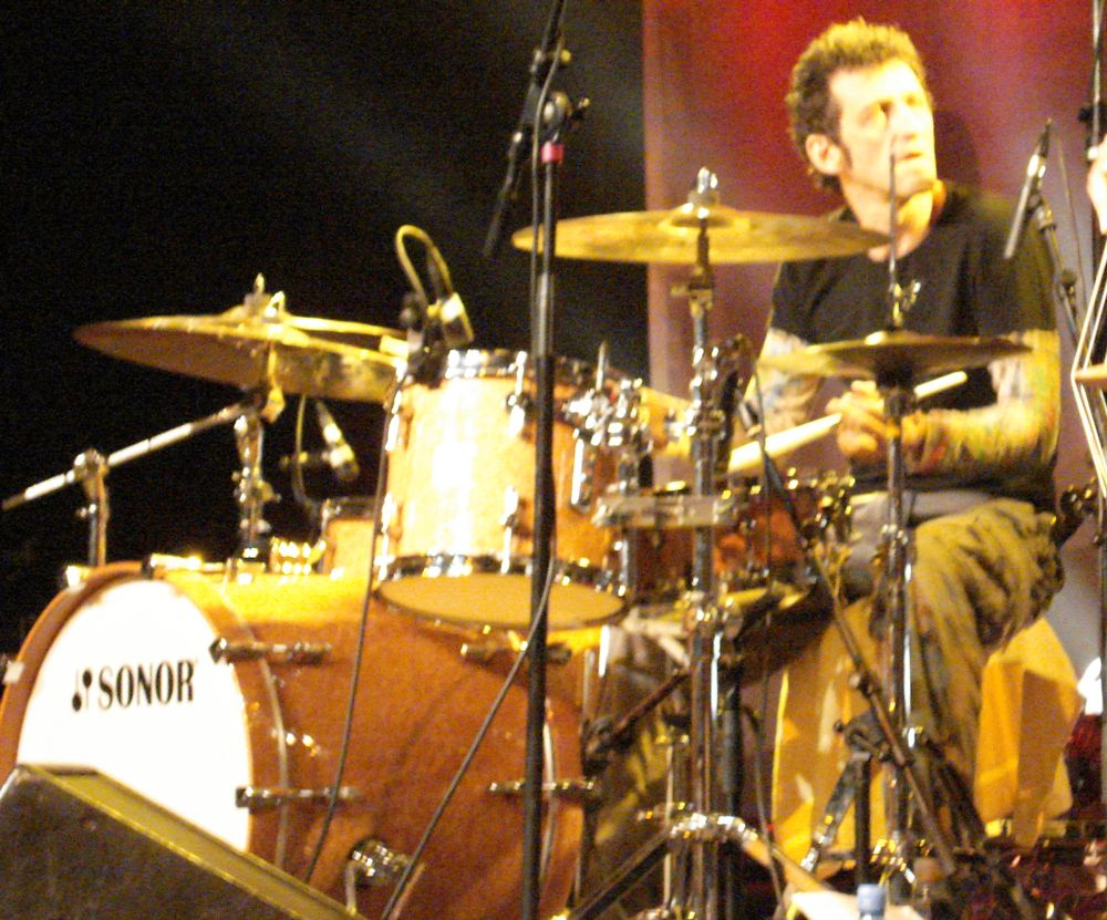 Jojo Mayer Strange Balls of Fire